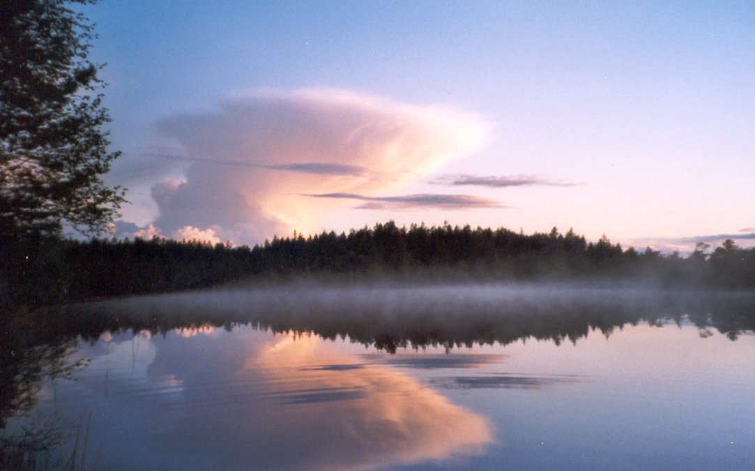 Lake at Salamajärven National Park, Finland